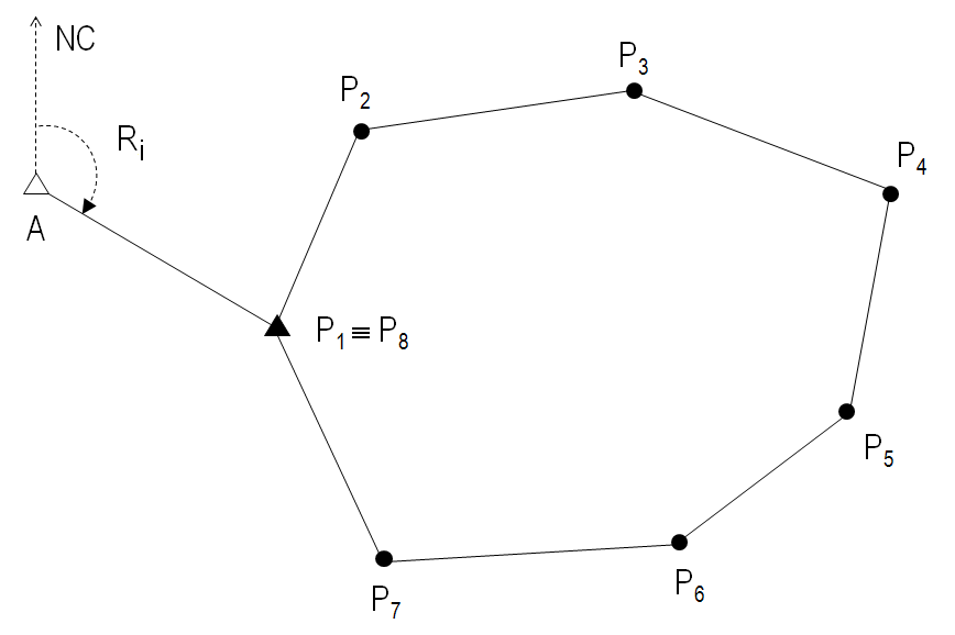 Closed traverse with external orientation